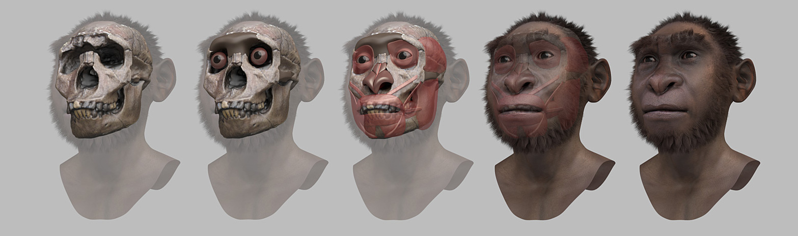 Derivative work (Right-to-Left version) of File:Turkana_boy_-_steps_of_forensic_facial_reconstruction.jpg by Cicero Moraes. Please credit Cicero Moraes as content author.